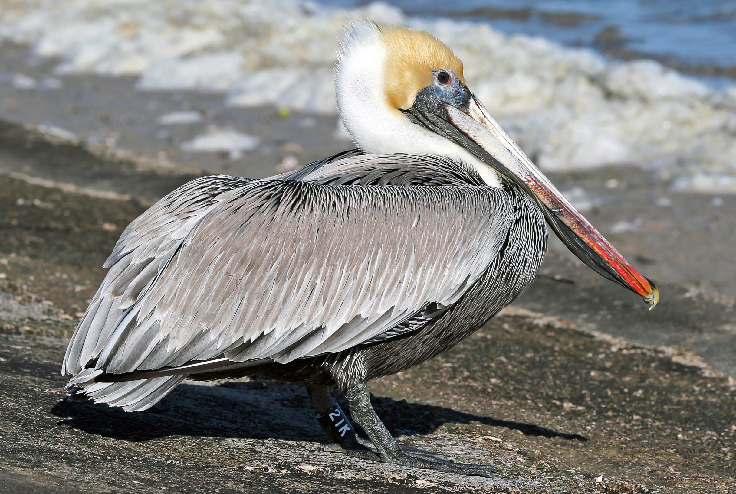 A Brown Pelican in Florida.